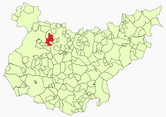 Montijo